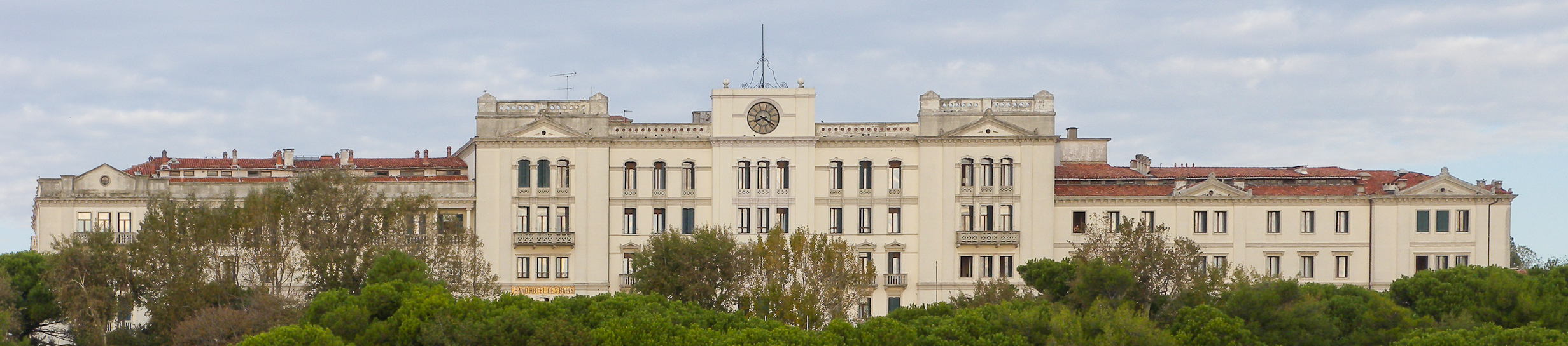 Hotel des Bains on Lido di Venezia